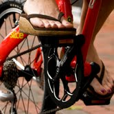 shot of pedals while someone rides a melon bike